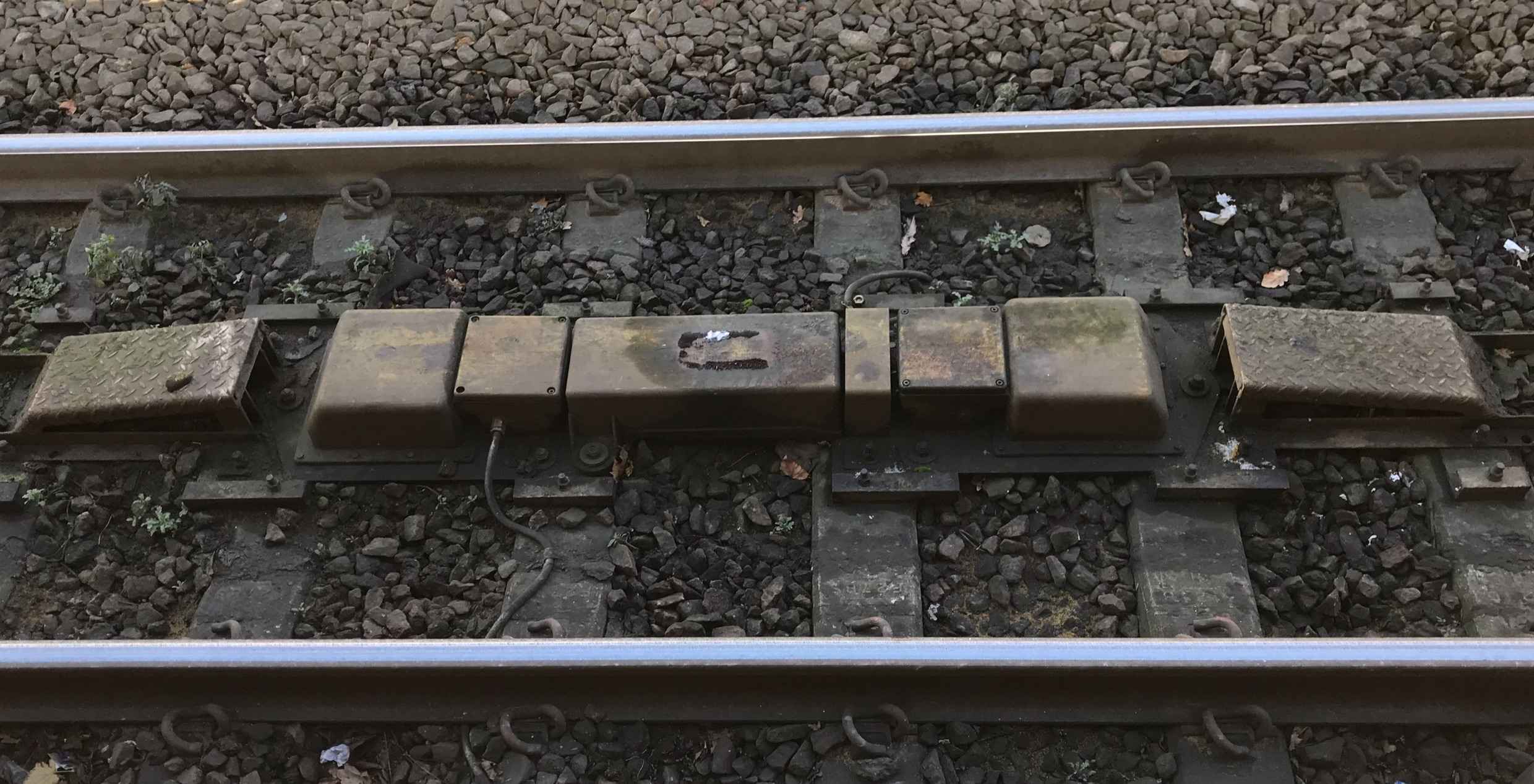 Image of Networkrail Automatic Warning System bidirectional track equipment